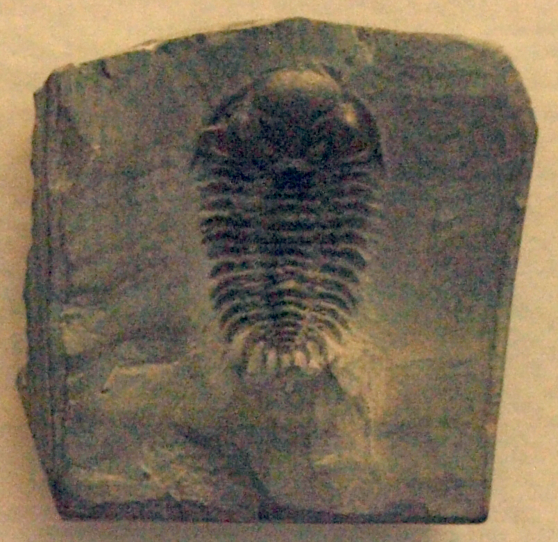 Ktenoura retrospinosa (Lane), a trilobite of the Silurian Wenlock series, found at Dudley, Worcestershire.